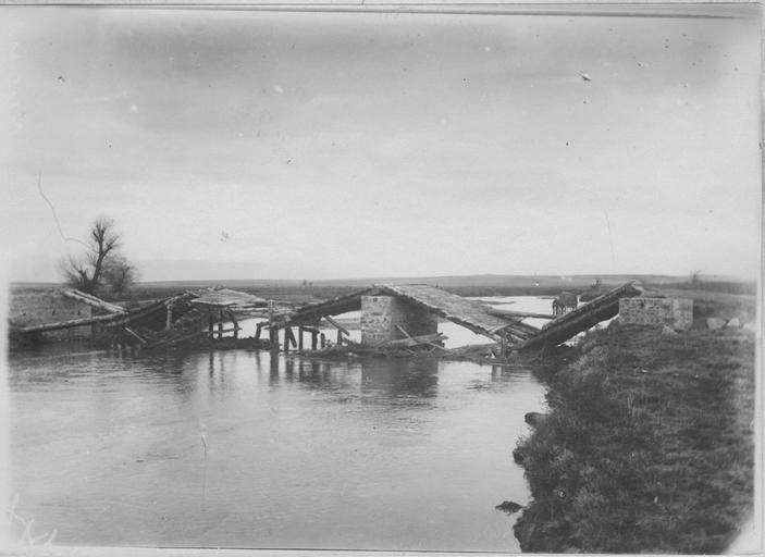 Village of Hasanovo or Mesohorion, Greece